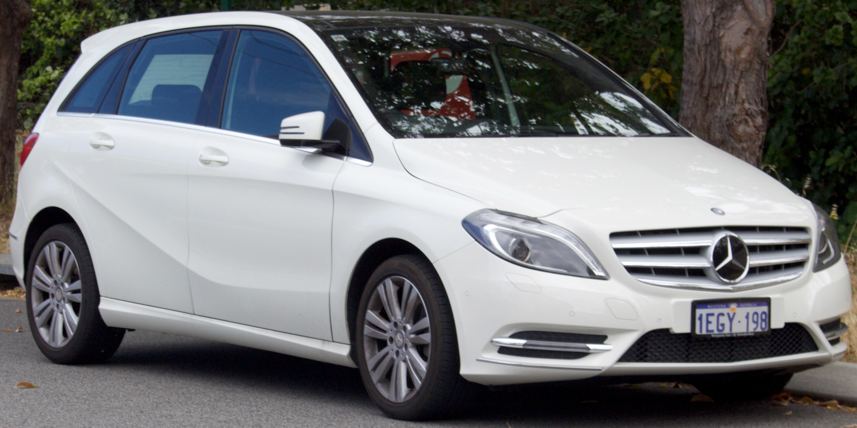 2013 Mercedes-Benz B 200 CDI (W246) hatchback. Photographed in Nedlands, Western Australia, Australia